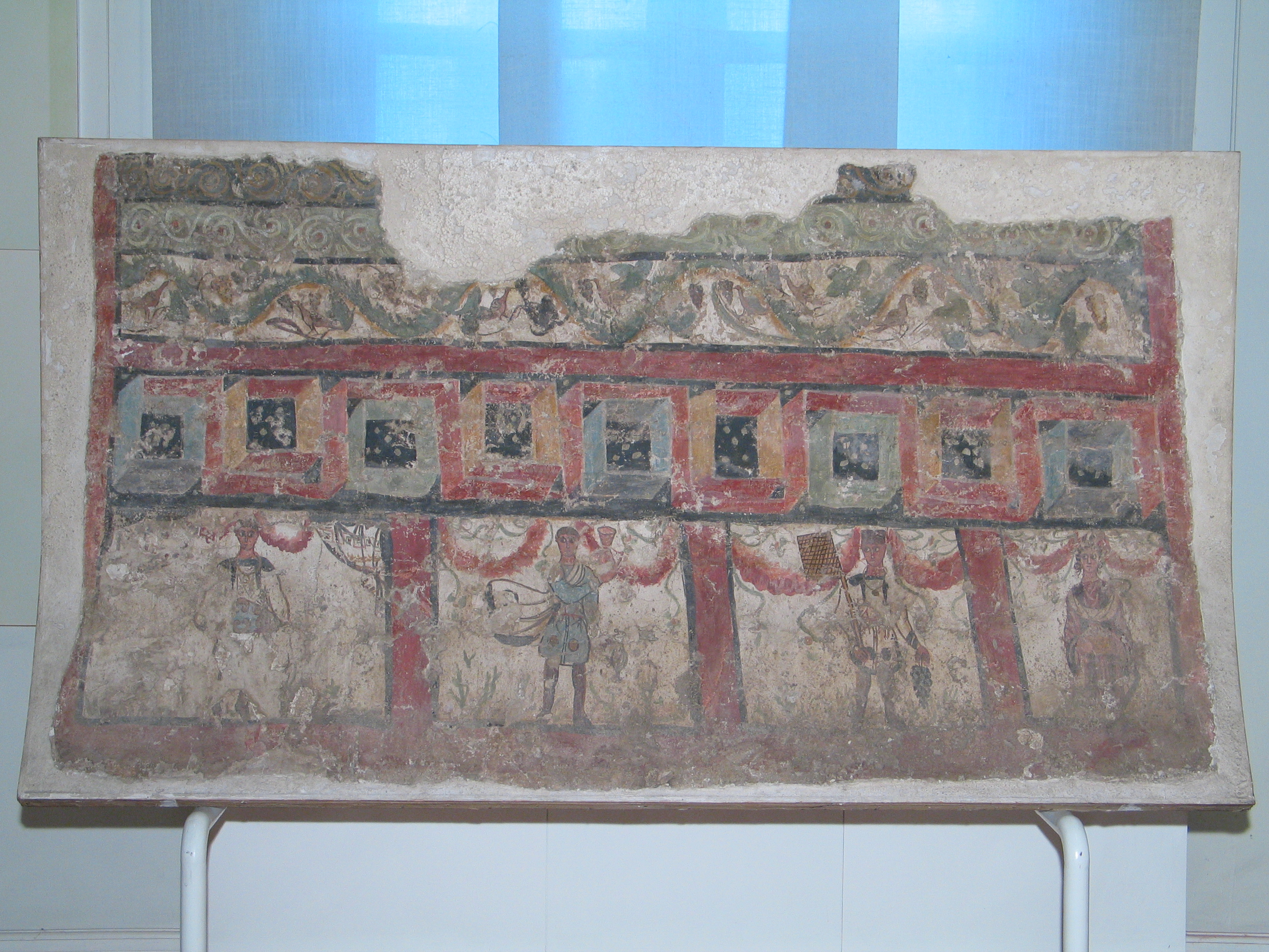 Southern side of the tomb with a fresco showing floral, geometric motifs and symbols of the seasons, archaeological site Beška-Brest (late 3rd and early 4th century). Srpski (latinica): Južna strana grobnice sa freskom na kojoj su prikazani floralni, geometrijski motivi i simboli godišnjih doba, arheološki lokalitet Beška-Brest (kraj 3. i početak 4. veka).